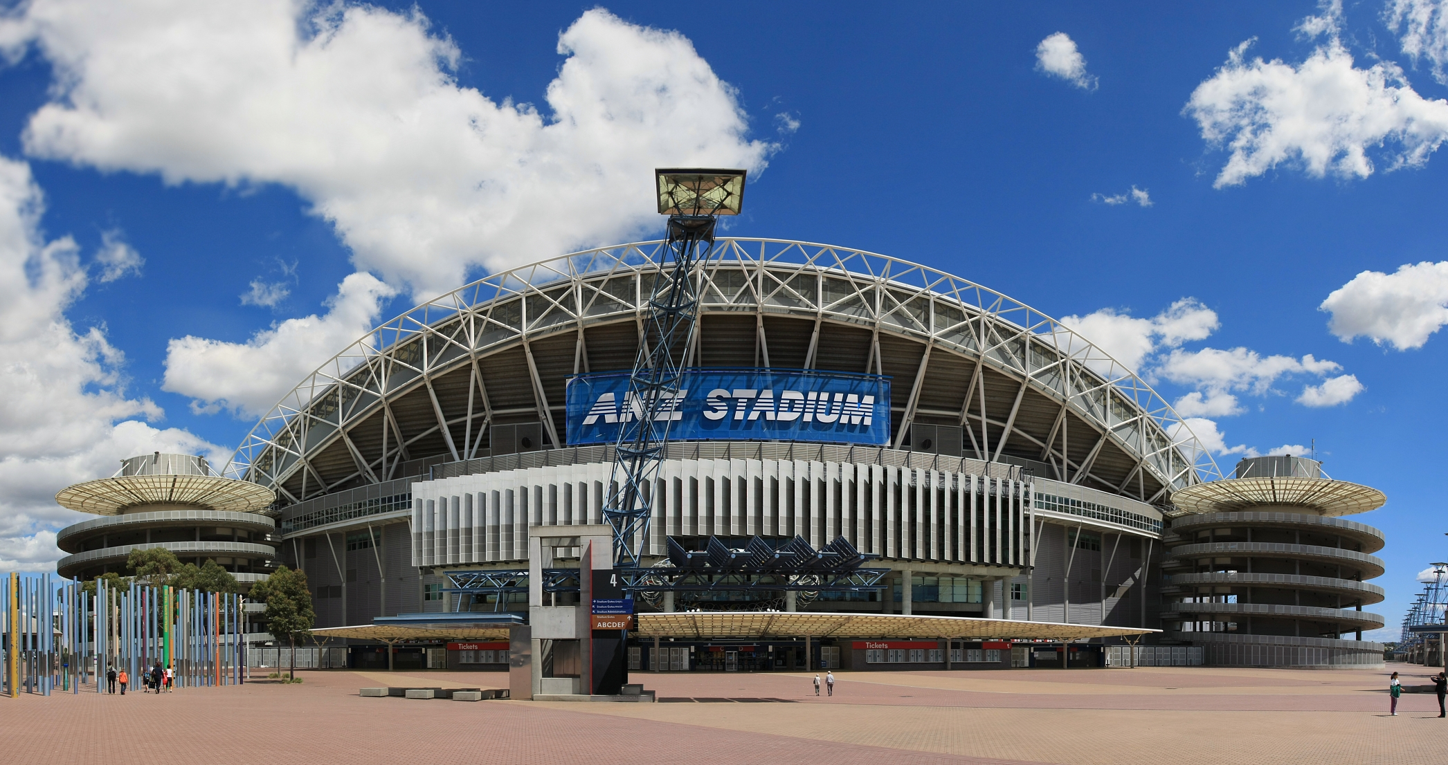 Stadium Australia, Sydney Olympic Park